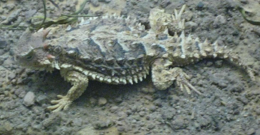 Phrynosoma asio A lizard. Which camouflages well.